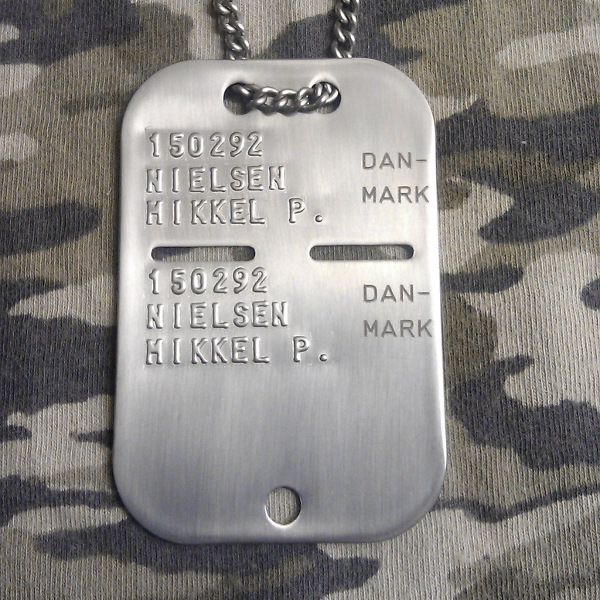 Picture of a Danish dog tag Dog_tag